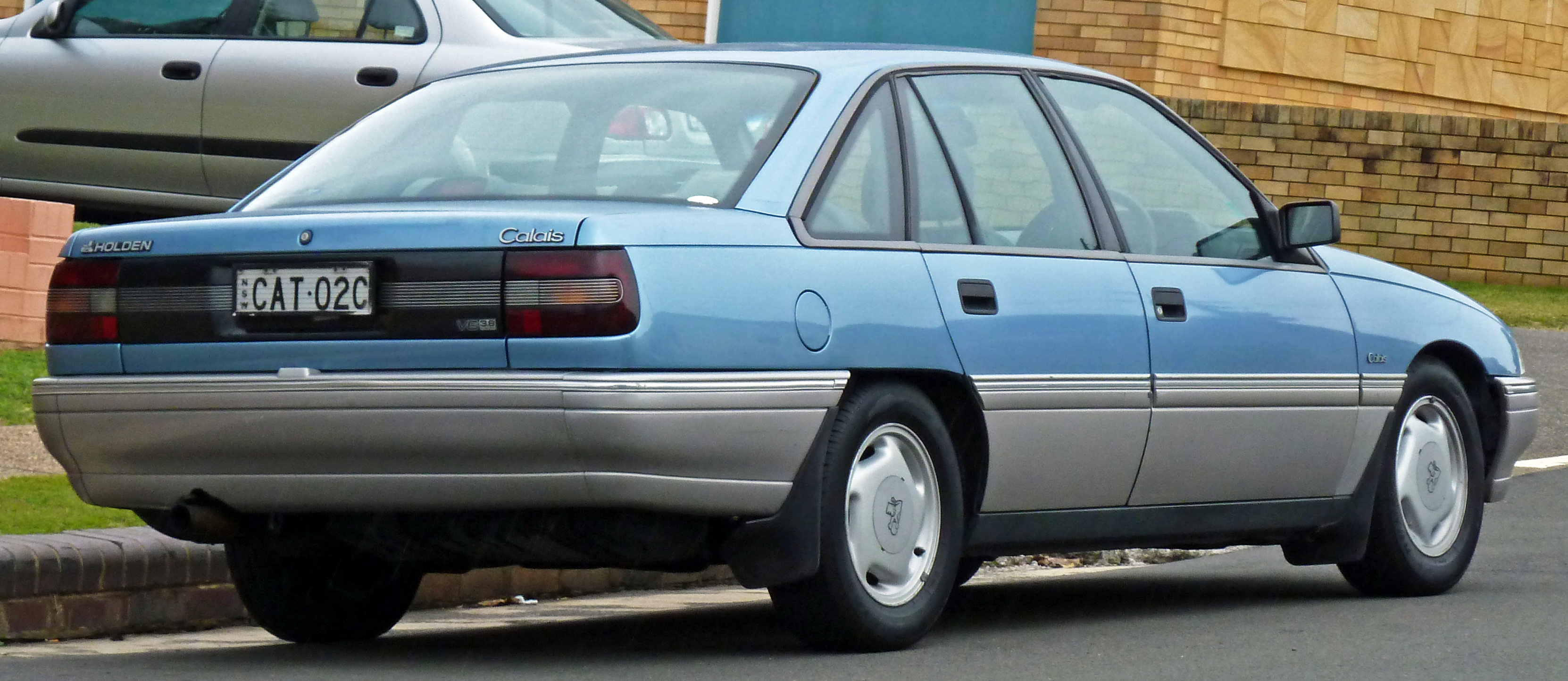 1990 Holden VN Calais sedan. Photographed in Cronulla, New South Wales, Australia.